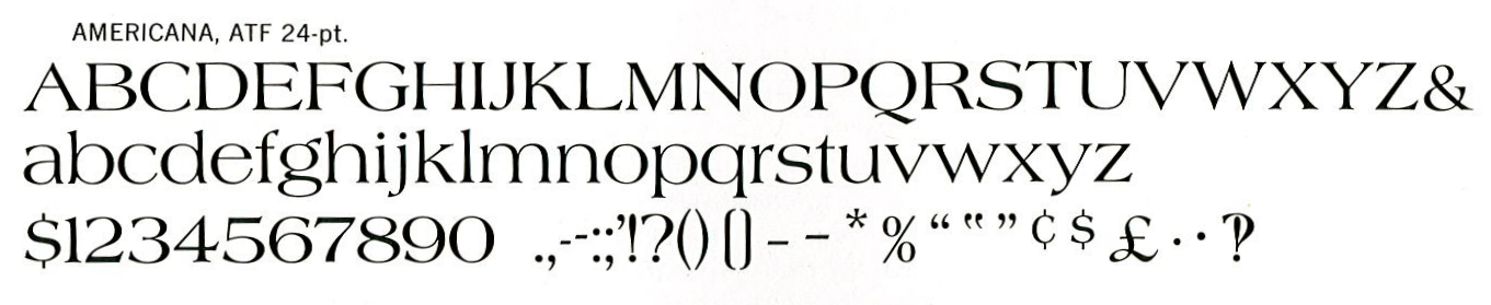 Americana by Richard Isbell